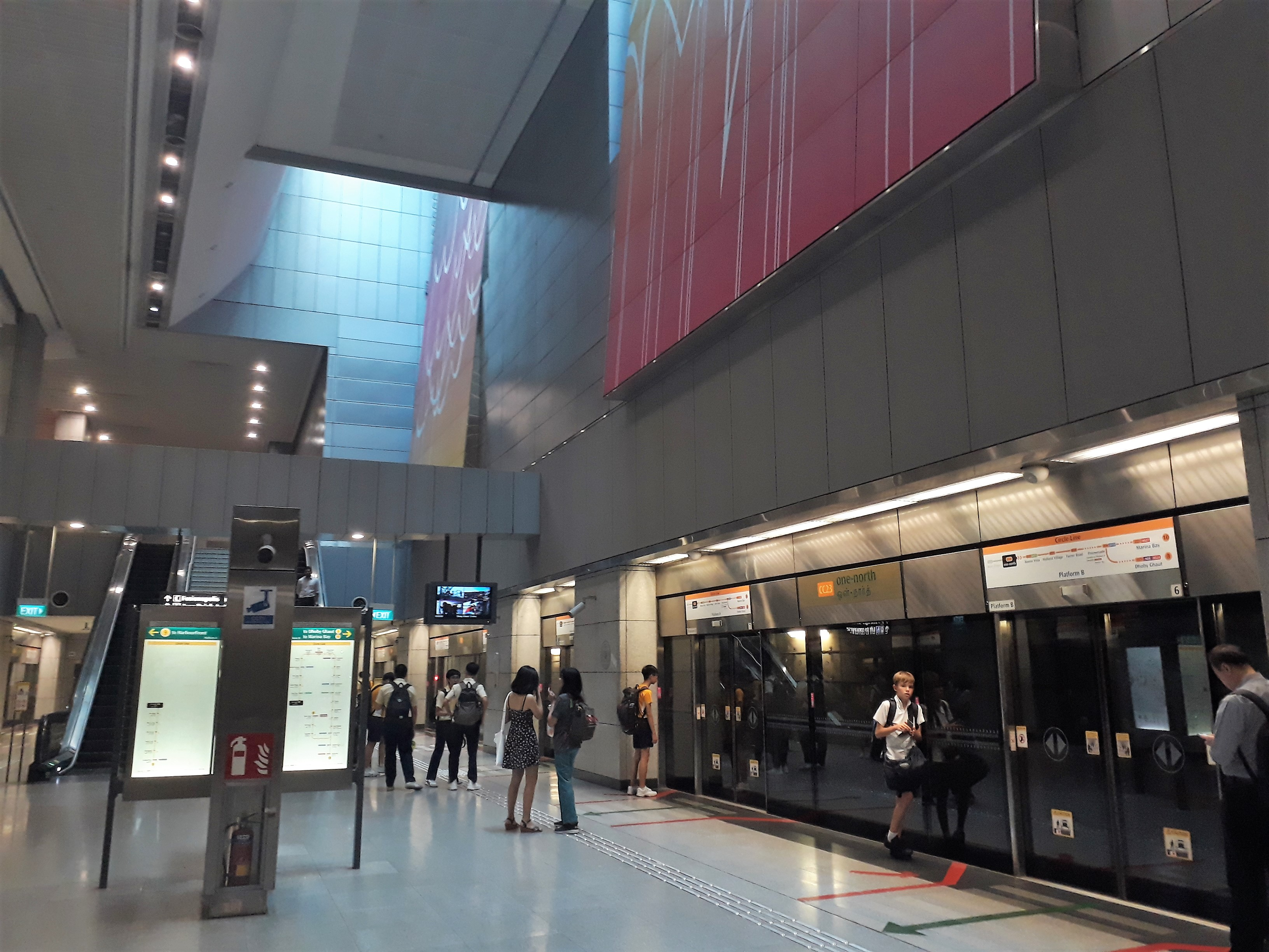 Platforms of one-north